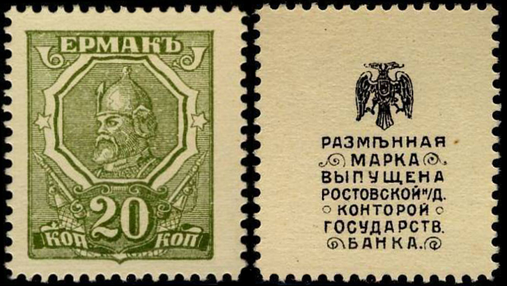 Russia government of the Don Territory money stamp 20 kopeks. 1918.